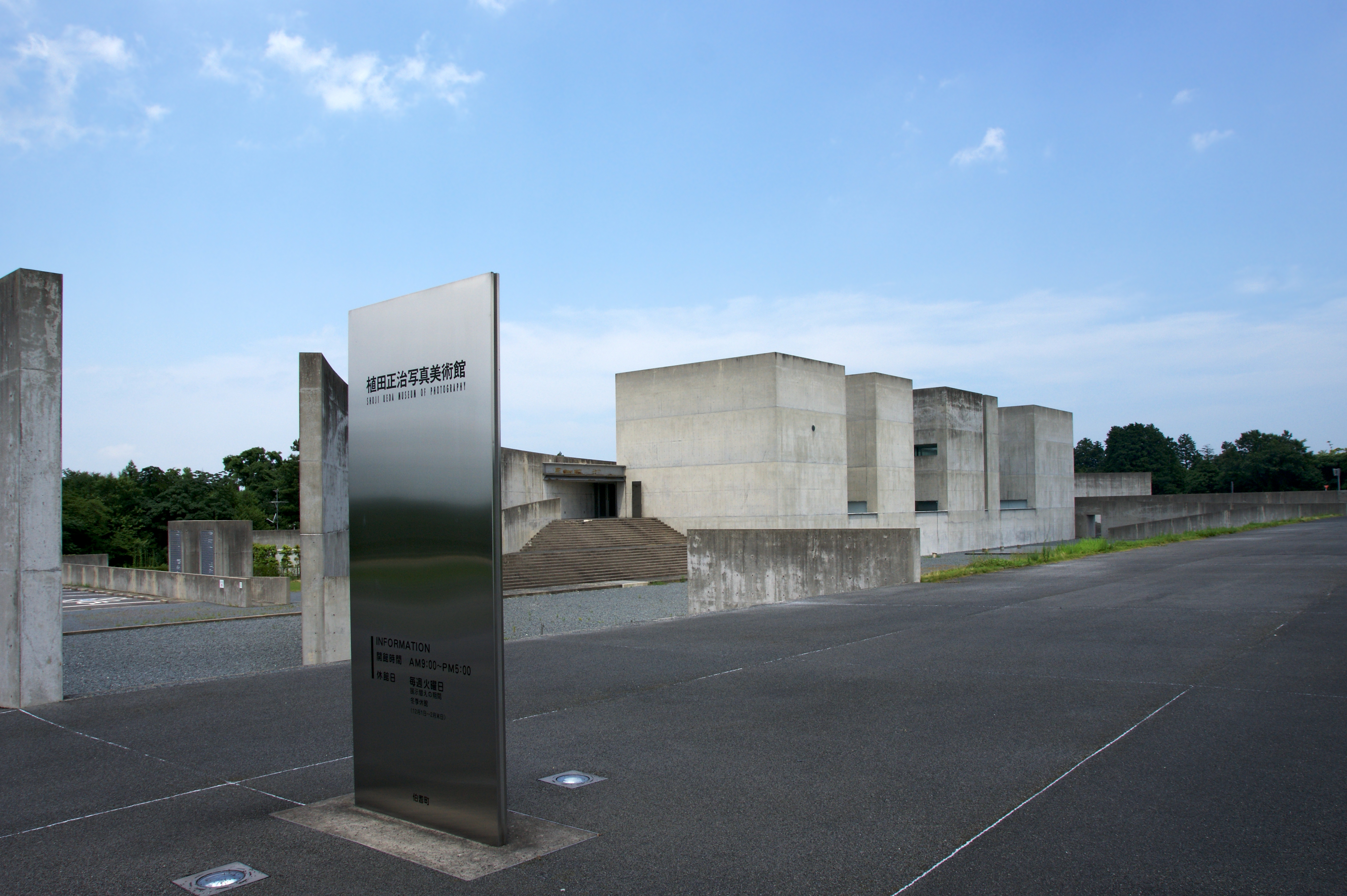 Shoji Ueda Museum of Photography in Hōki, Tottori prefecture, Japan.